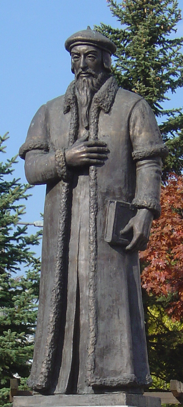 Statue of Calvin in Mátészalka, Hungary